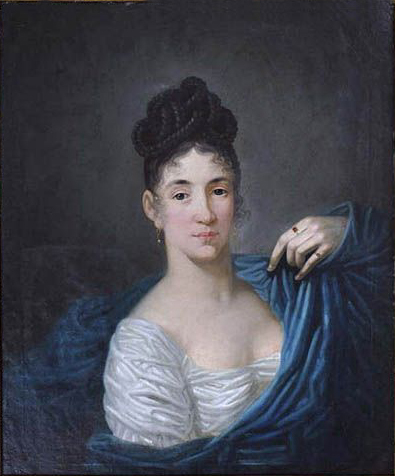 Portrait of Zofia Moraczewska